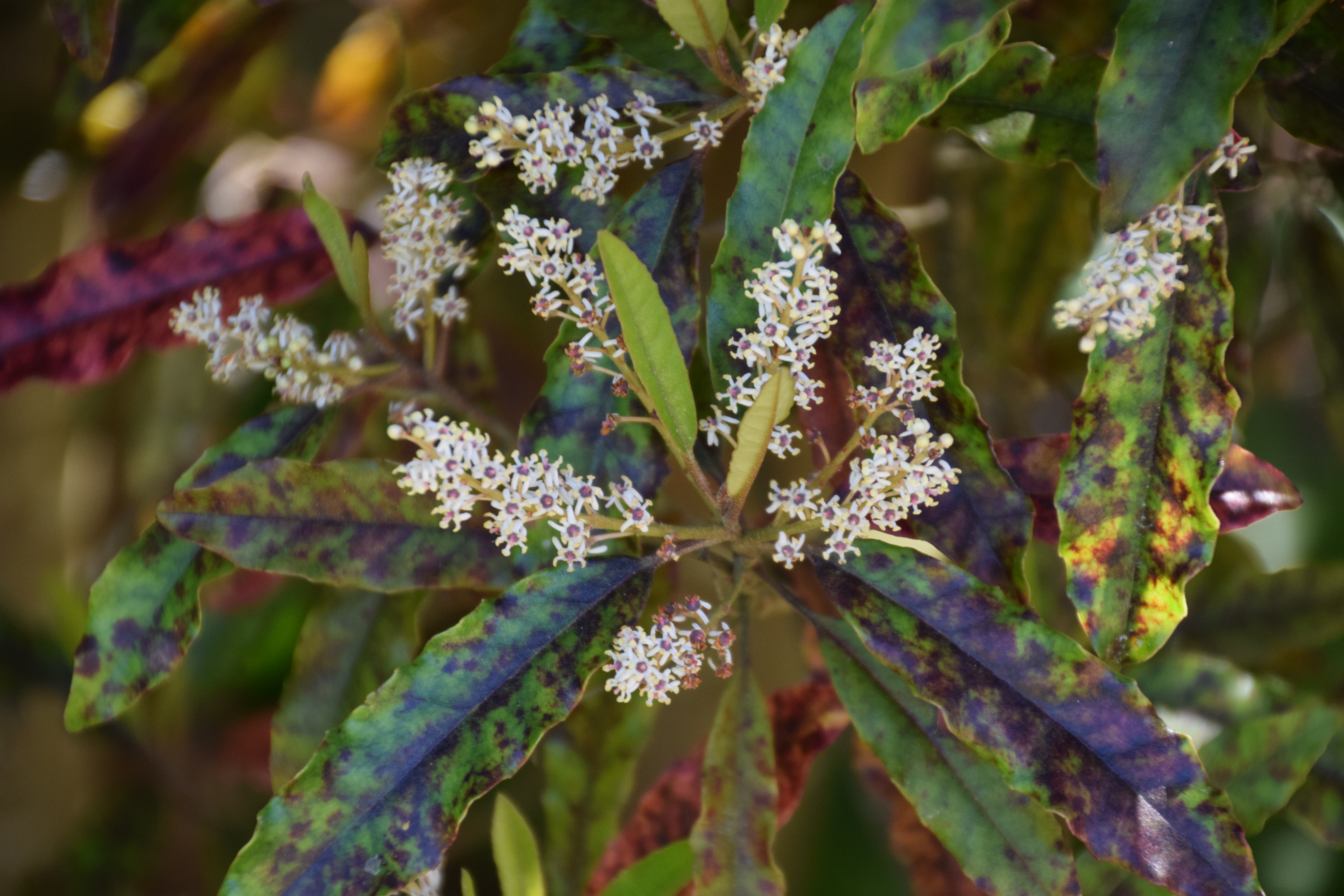 Quintinia serrata in Dunedin Botanic Garden, Dunedin, New Zealand